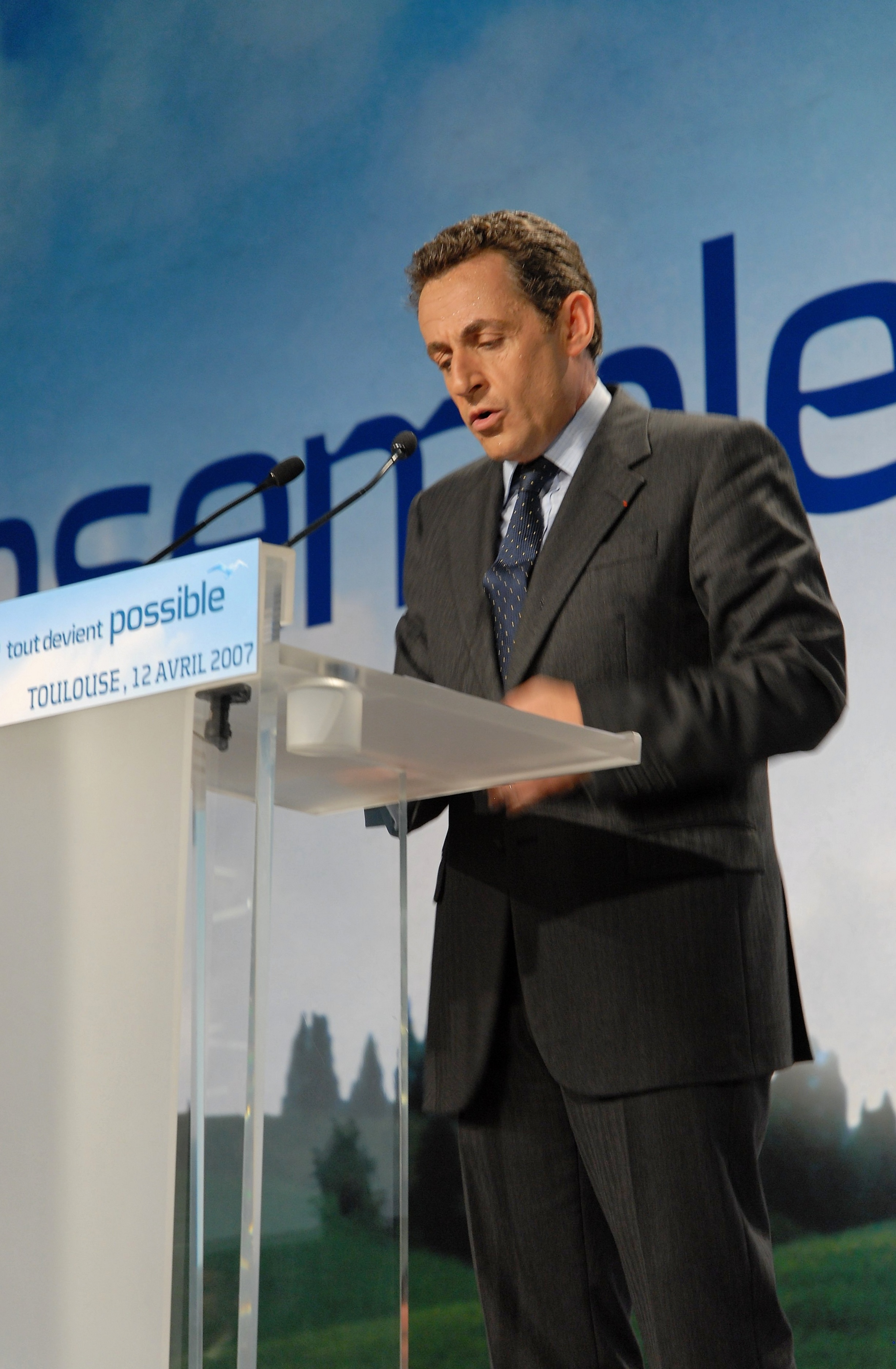 Nicolas Sarkozy during his meeting in Toulouse on April, 12th 2007 for the 2007 presidential election campaign).